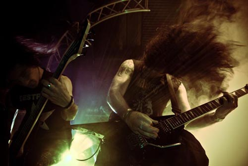 Kreator Live at Hole In The Sky, Bergen Metal Fest 2007